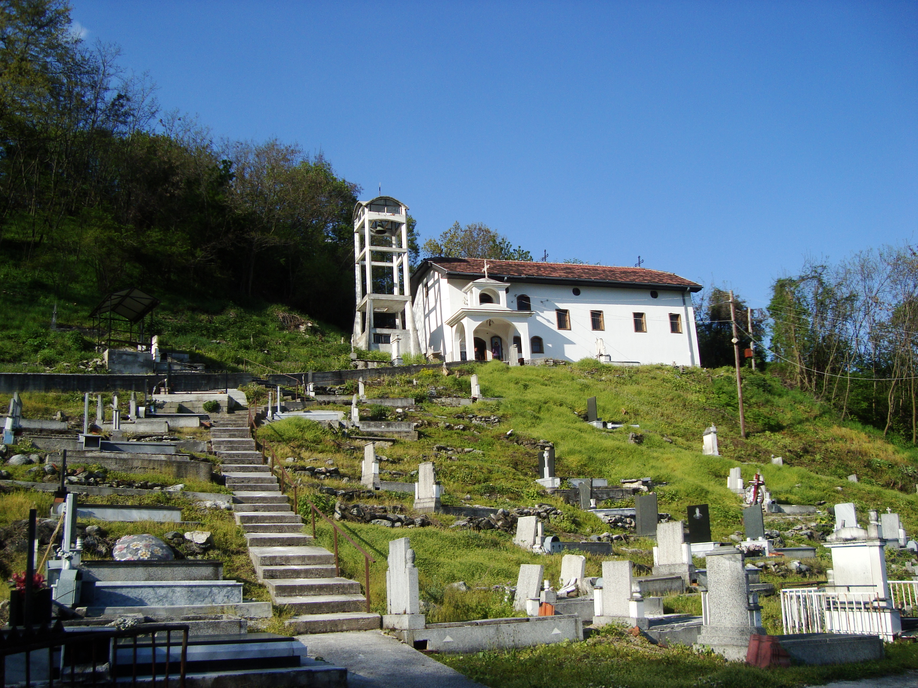 Church "Holy Mary", Belovište, Macedonia.